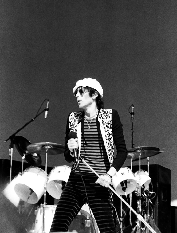 Peter Wolf of the J. Geils Band. Candlestick Park, San Francisco.